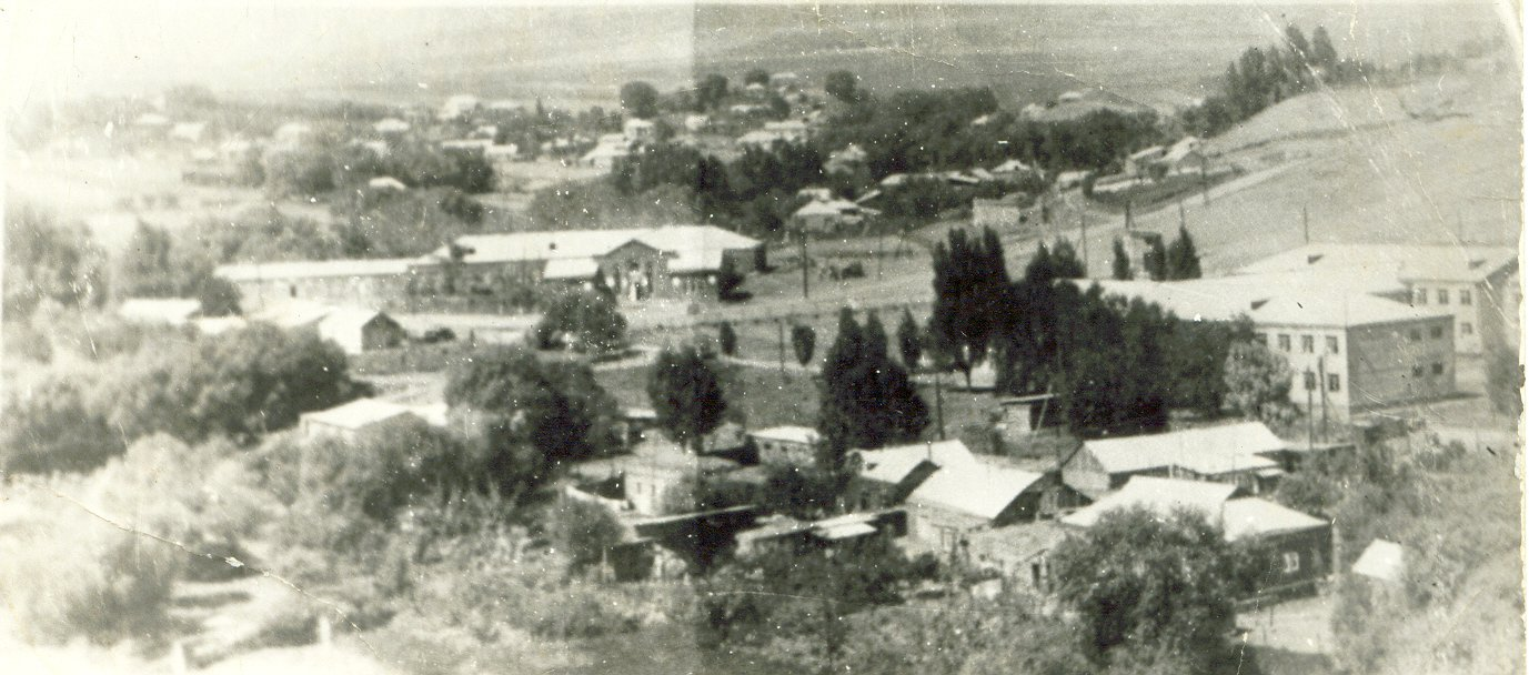 Okhchuoglu before deportation of population